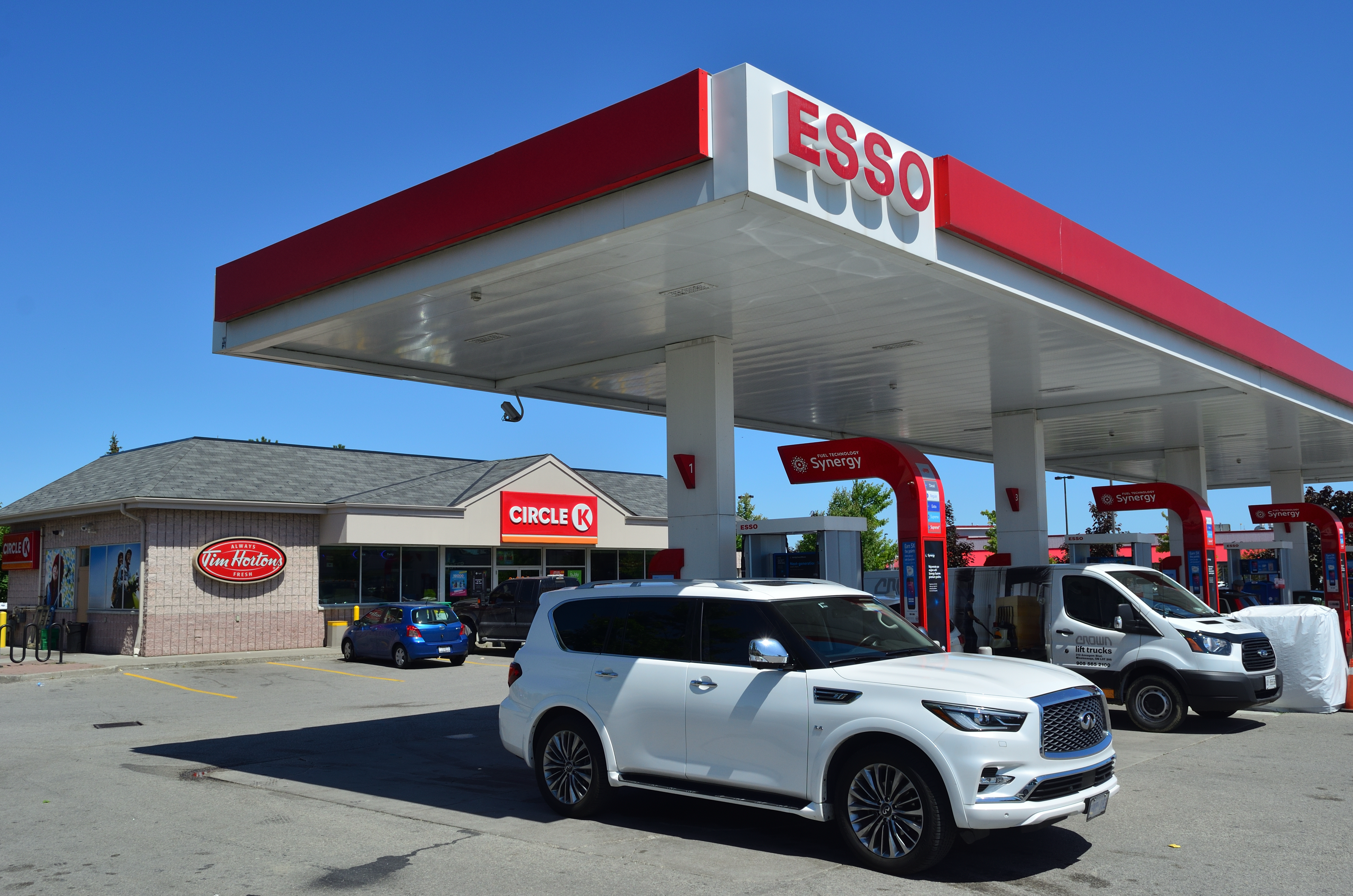 ESSO in Markham - Address: 8291 Woodbine Ave, Markham, ON L3R 2P4